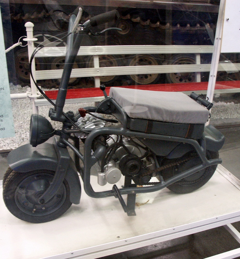 Laboratorios Megalab España S.A.